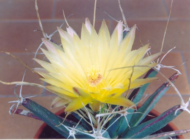 Leuchtenbergia principis - flower